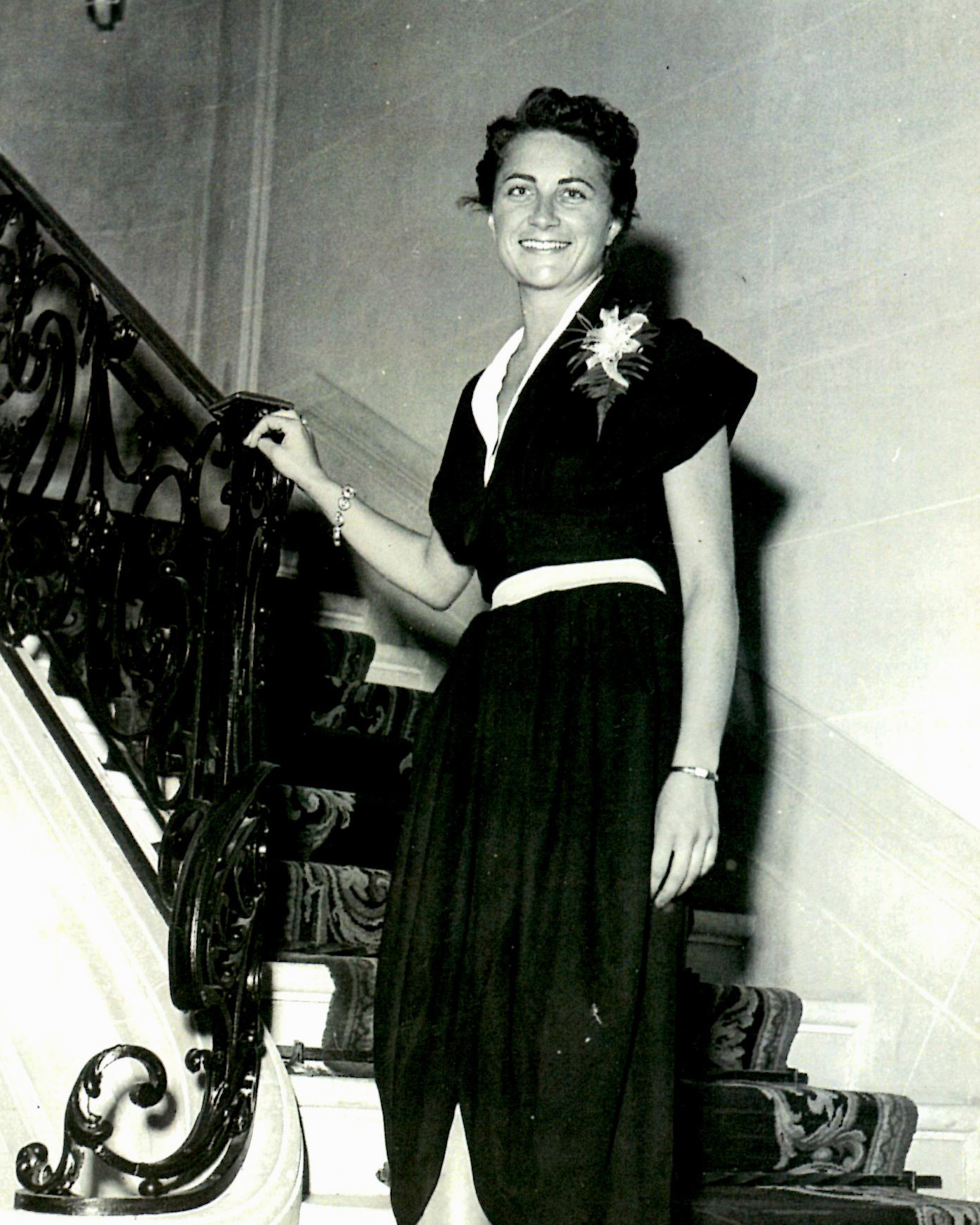 Marie-Jacques Perrier at the Embassy of Pakistan in France Dress by Jacques Fath in a fabric by Robert Perrier.